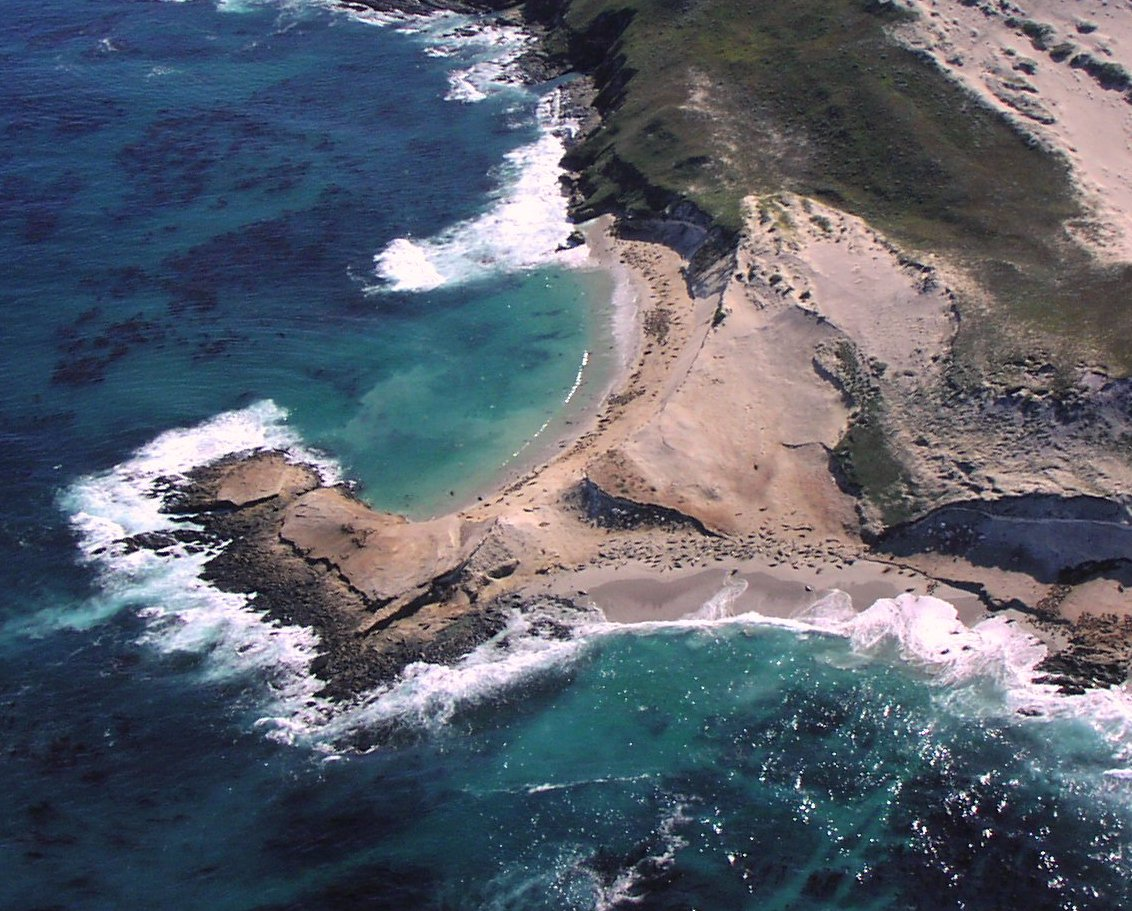 Seals, sea lions, marine mammals in large colony at western end of San Miguel Island; photo by self; GFDL/equiv